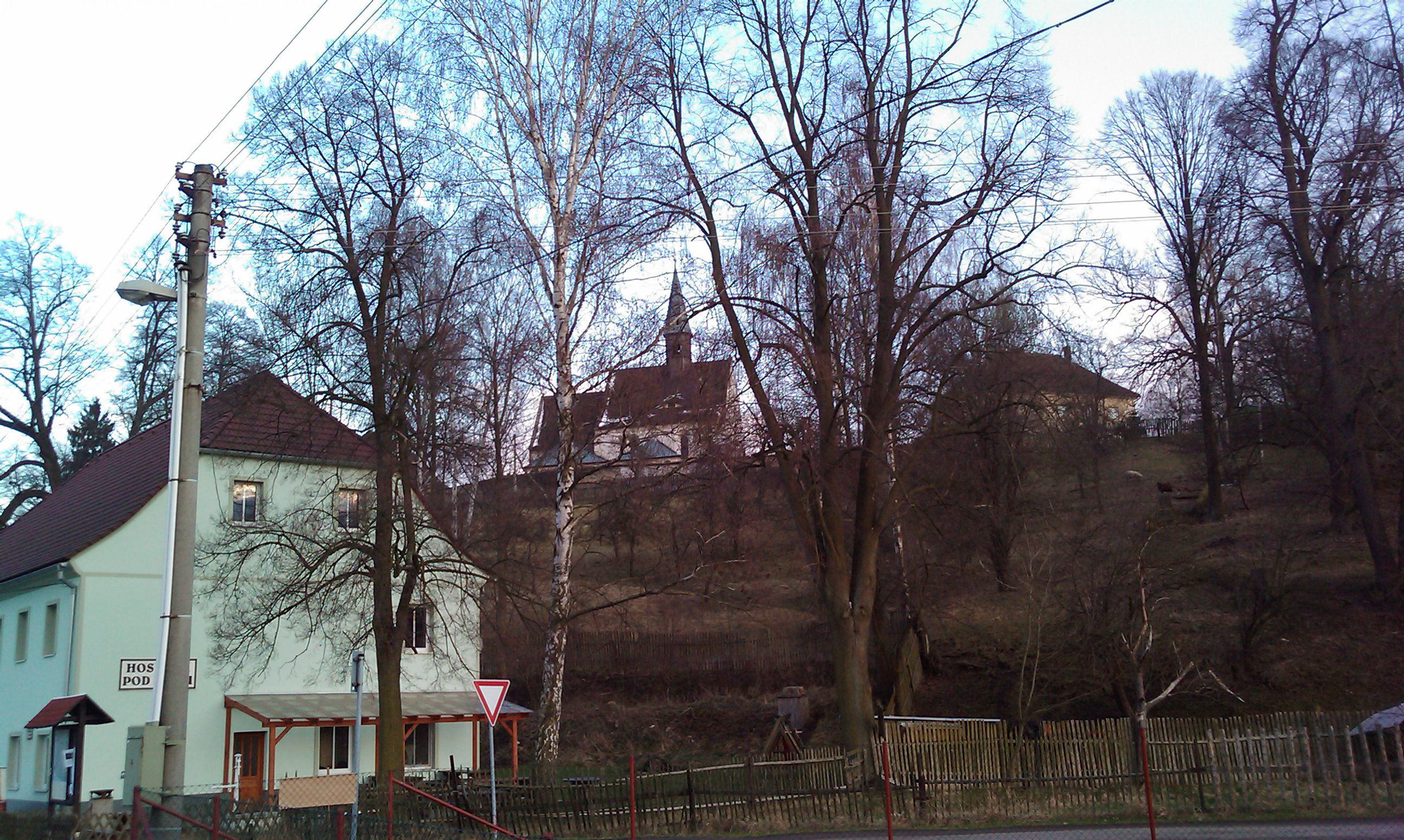 Kostel sv. Vavrince in Czech village Ves